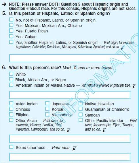 US Census 2010 form. extract of race section